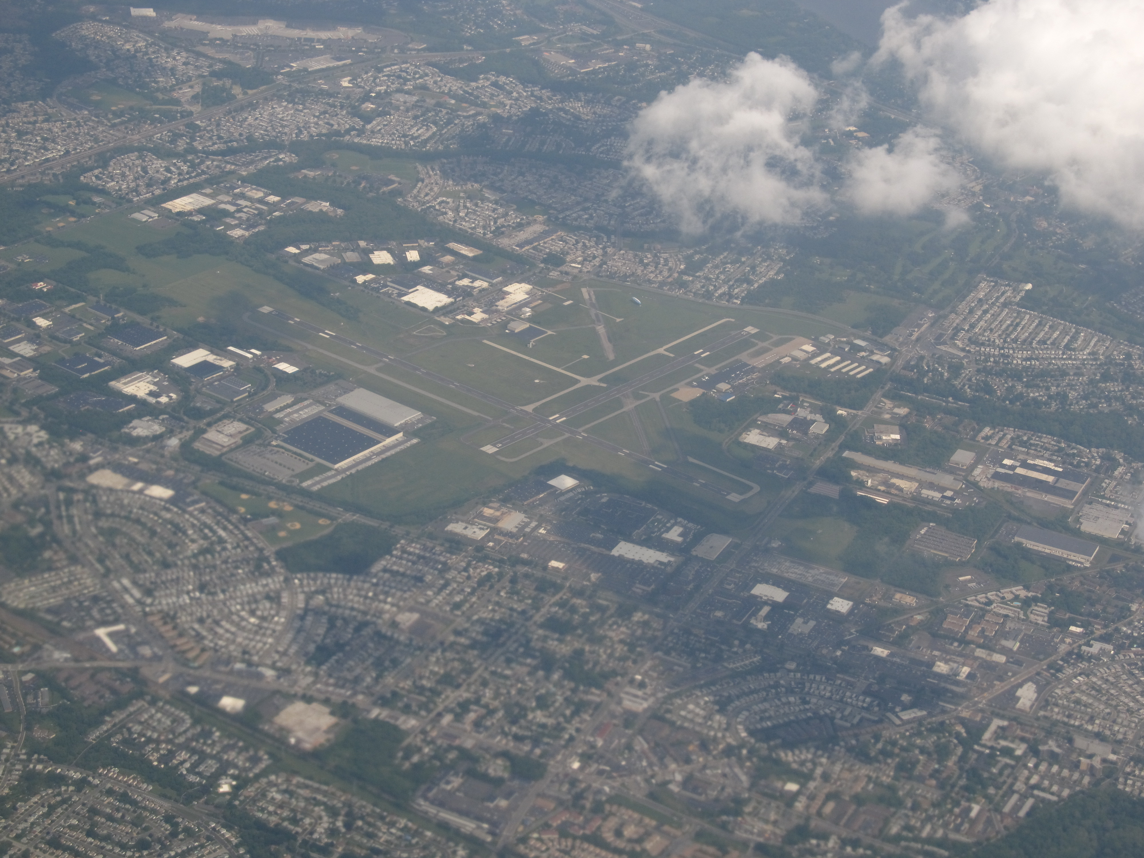 Northeast Philadelphia Airport (IATA: PNE, ICAO: KPNE, FAA LID: PNE) is a public airport located just north of the intersection of Grant Avenue and Ashton Road in the Ashton-Woodenbridge neighborhood of Northeast Philadelphia. It is part of the Philadelphia Airport System along with Philadelphia International Airport, and is the general aviation reliever airport for Philadelphia International Airport. Northeast Philadelphia Airport is the sixth busiest airport in Pennsylvania. Services at the airport provided by two fixed base operators include fuel, major aircraft repair, hangar rental, aircraft rental and charter, flight instruction, and aircraft sales.